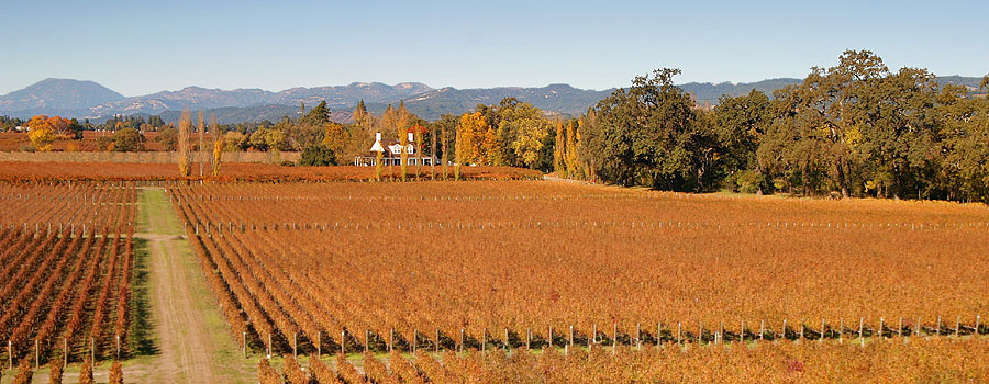 Napa Valley vinyard